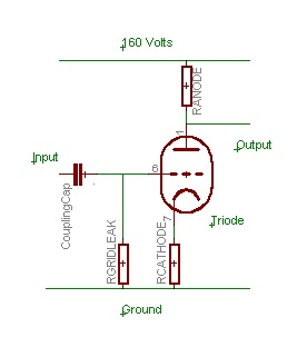 Single-ended triode